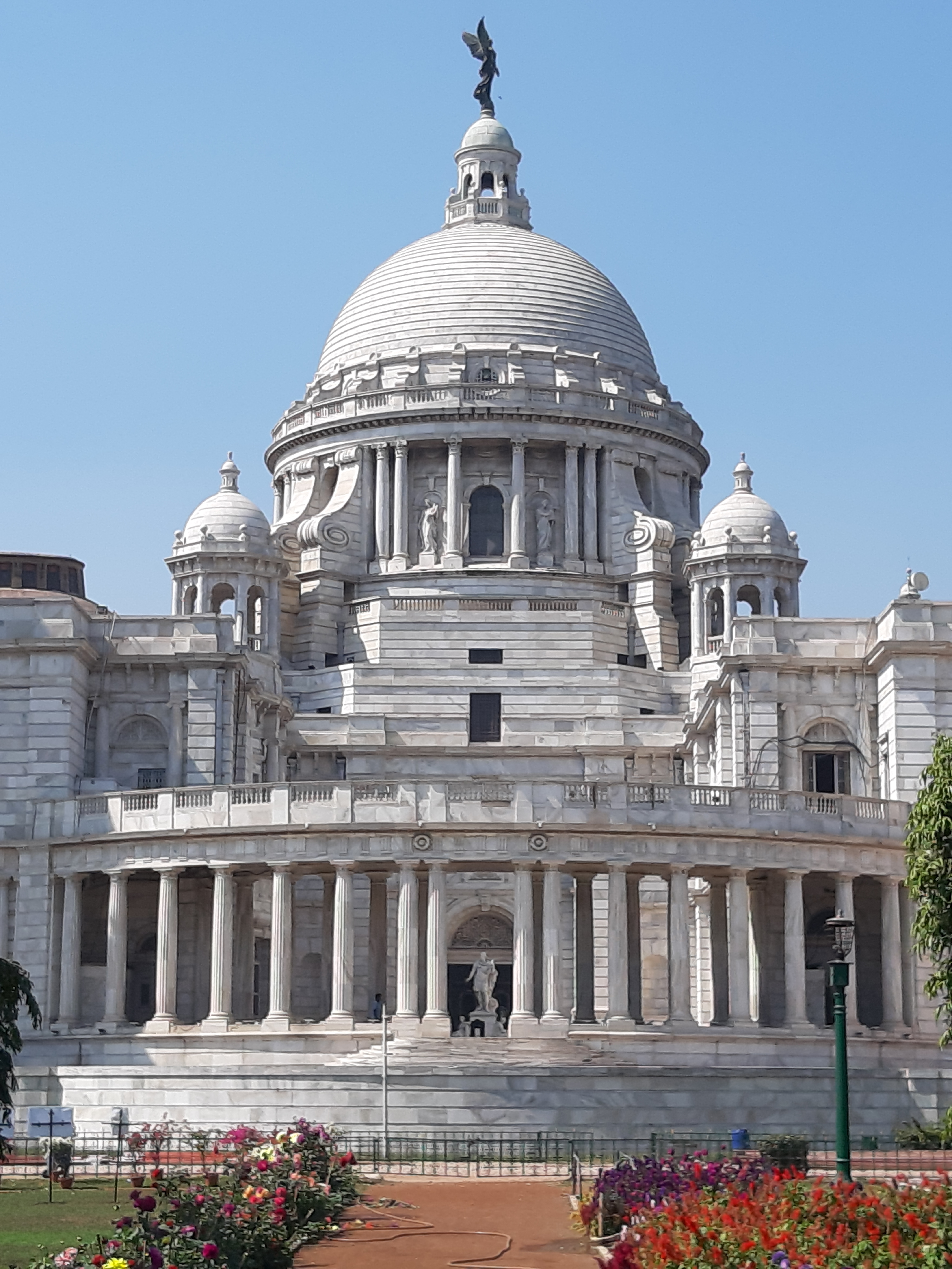 A architecture of Royal British India.